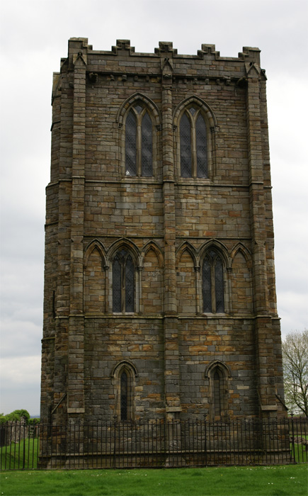 Cambuskenneth Abbey, Stirling, Scotland - bell tower